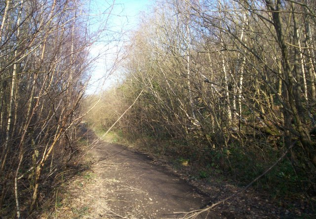 Dismantled Railway Line and Platform